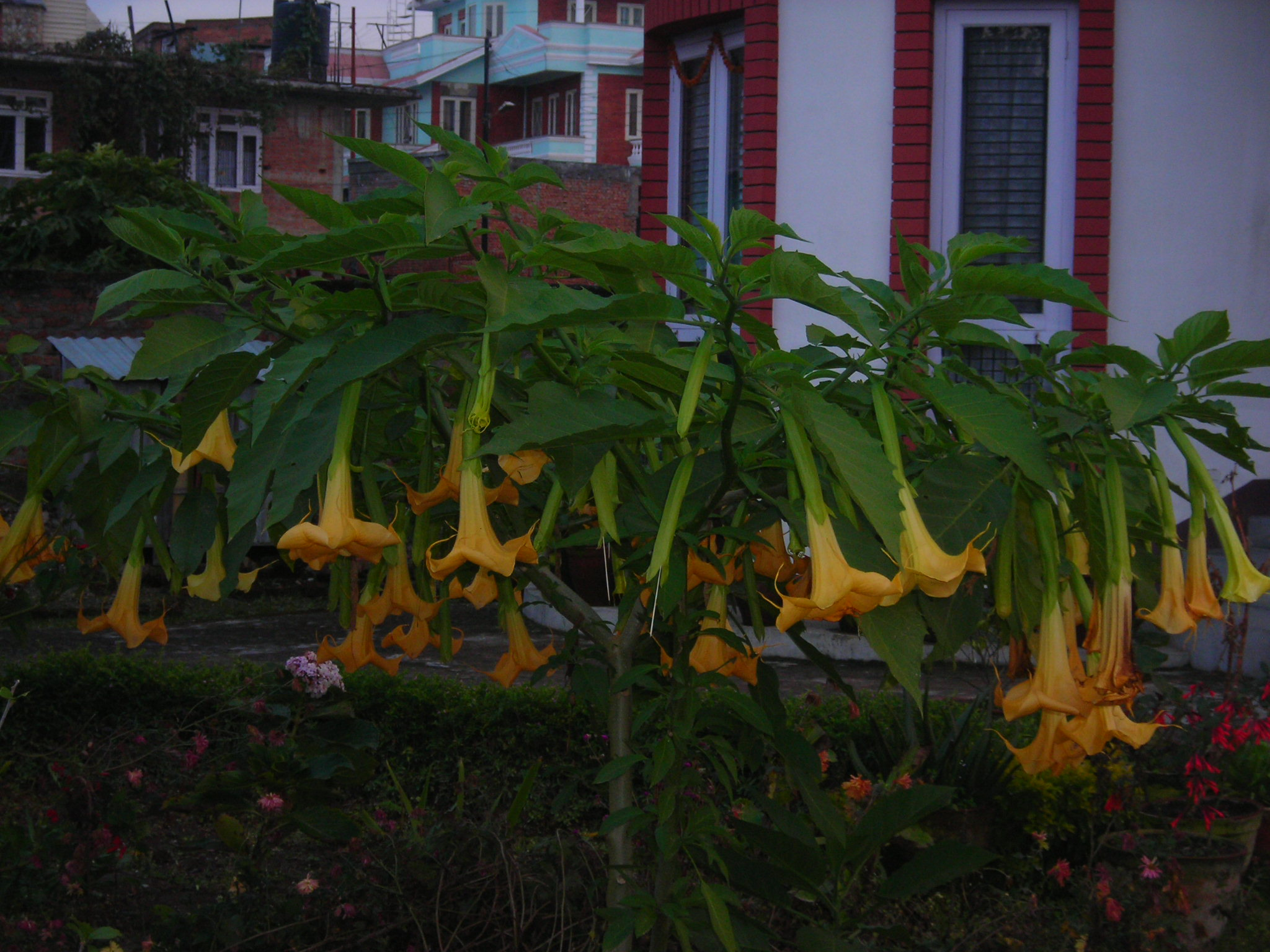 Dhokre Phool, a jungle flower found in Nepal.